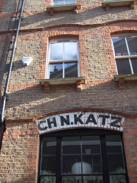 The last Jewish shop in Brick Lane Ch.N.Katz was a small string and paper bag supplier until the late 1990's when rising rents forced out the eponymous owner after 57 years. Some years earlier the artist Rachel Lichtenstein used the shop window for an installation recalling her family's Jewish past, and the story of this and other forgotten inhabitants of the area is told in the book 'Rodinsky's Room' by her and Iain Sinclair, published in 1999: highly to be recommended to anyone interested in Spitalfield's Jewish history.